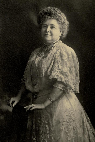 Carrie Adell Strahorn, c.1911 Other information